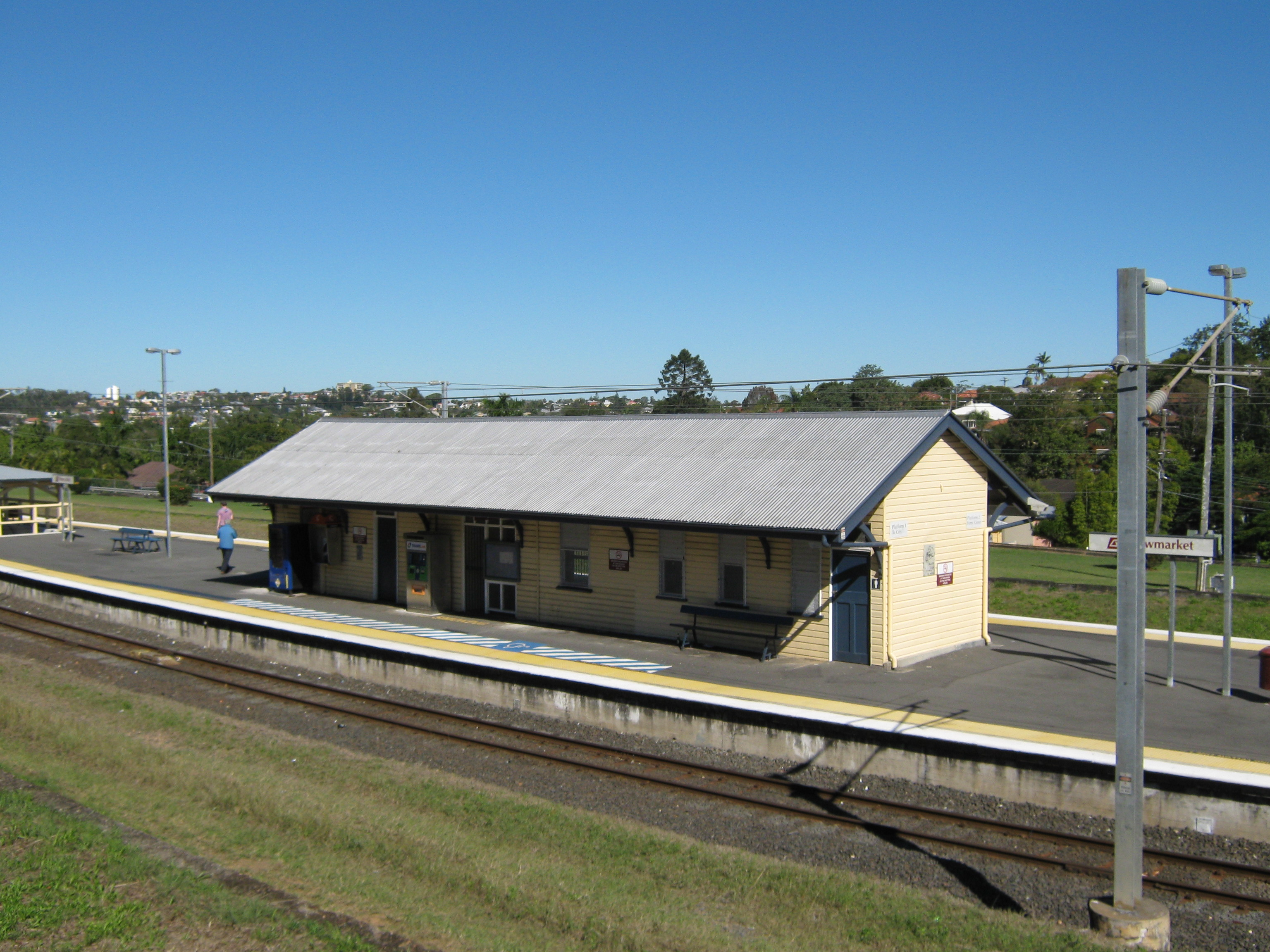 Newmarket Railway Station, Queensland.